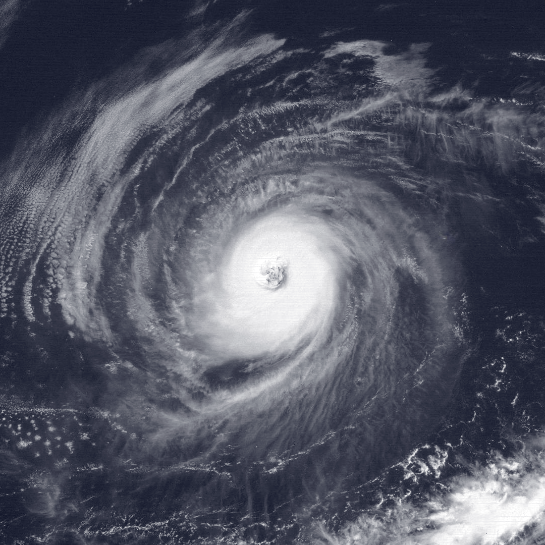 Hurricane Tina at peak intensity in the Pacific Ocean on September 30, 1992